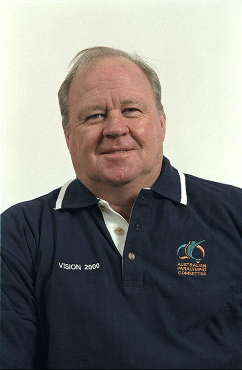 Portrait of Graham Edwards, 2000 Australian Paralympic Team administrator